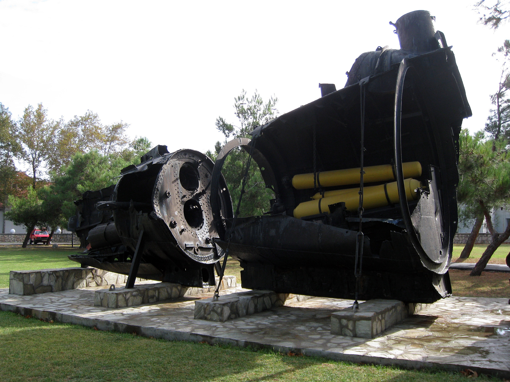 Wreckage of German submarine UB-46, sunk by a mine off Istanbul on 7 December 1916 and salvaged in 1993. Now on display at the Dardanelles Naval Museum at Çanakkale, Turkey.